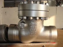 Large, high-pressure swing check valve. Valves and are generally made of plastic or steel, the latter being the most widely used in chemical and petrochemical applications. Steel grades range from the most common type, namely carbon steel, with standard stainless steel being the second most common. Stainless steel alloys, which include nickel or copper are used in applications that require higher corrosion or heat resistance. In such cases, the most commonly used valve configurations -- ball valves, gate valves, check valves, globe valves and butterfly valves -- are often forged or cast as duplex valves, super duplex valves, alloy 20 valves, monel valves, inconel valves, incoloy valves and 254 SMO valves (6Mo valves). Titanium valves are also used in some highly corrosive applications. Titanium is not a stainless steel alloy.